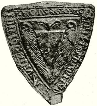 Seal of István Ákos (cca. 1267–1315) (rotated)